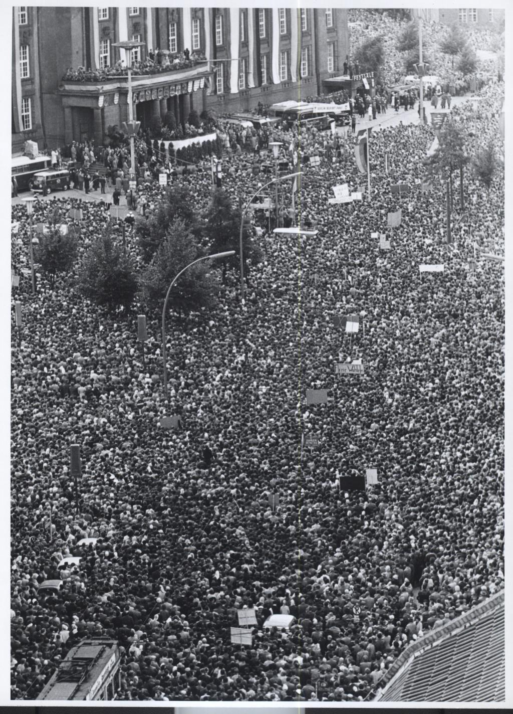 Aug. 16, 1961. A bird's eye view of West Germans protesting the division of Berlin. From the booklet "A City Torn Apart: Building of the Berlin Wall." For more information, visit CIA's Historical Collections webpage (